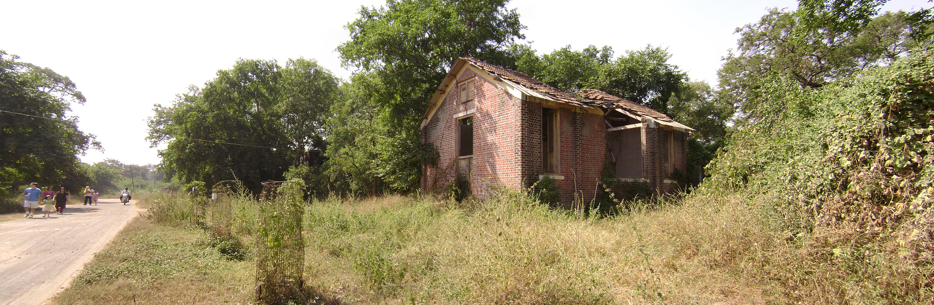 This Studio at the Laxmi Vilas Palace in Vadodara was used by Raja Ravi Verma during his stay.